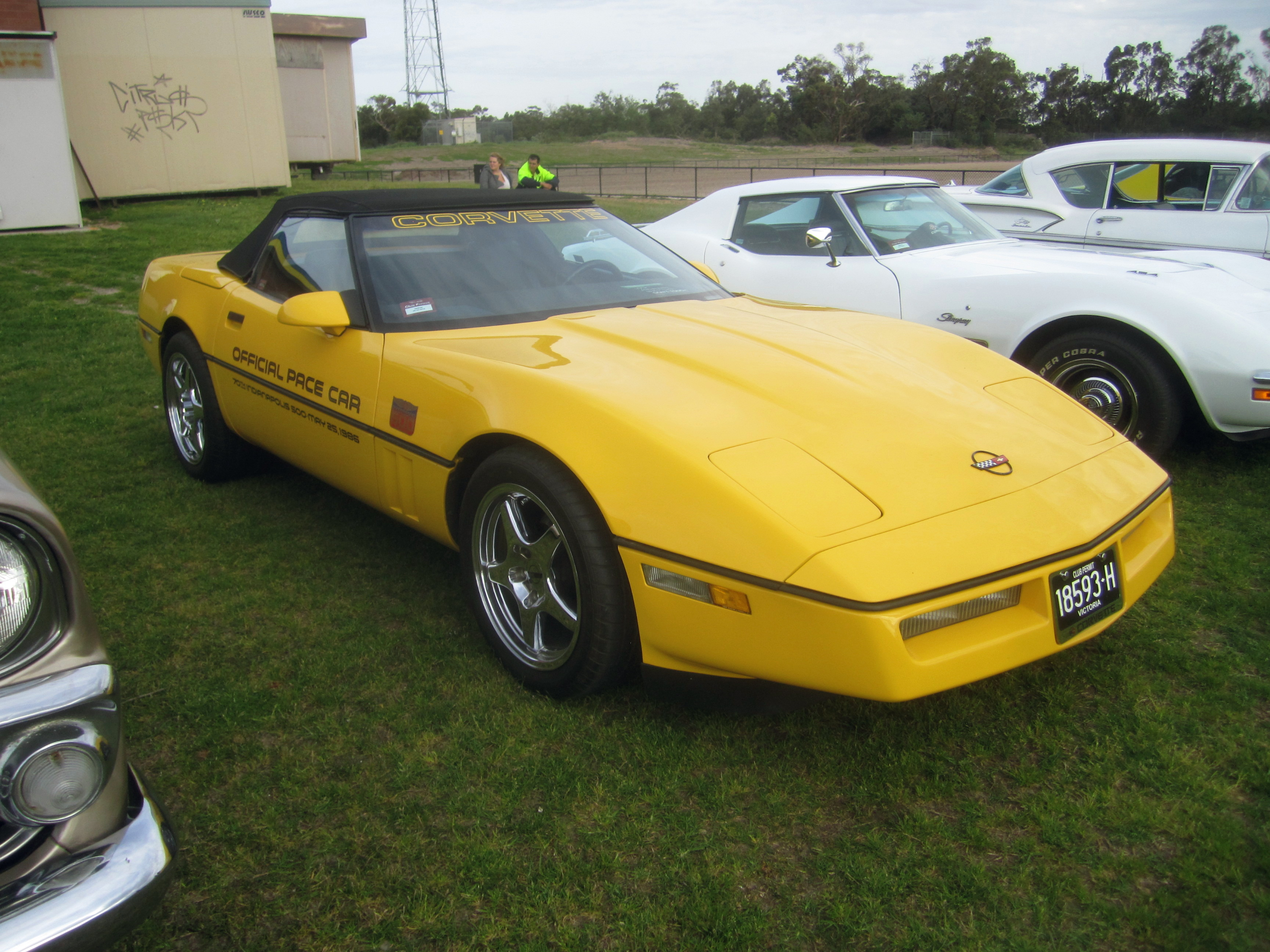 Yellow. The C4 Corvette was made from 1984 to 1996. a more sleek modern looking car with a new glass hatchback. Available in Coupe and the Convertible was reintroduced in 1986 Unlike earlier Corvettes, visually, the C4 changed very little through the years, apart from the 1991 facelift. The high mount stoplight was introduced on the coupes in 1986. New wheels in 1988, the ZR-1 introduced in 1990, fender scoops updated in 1995 A yellow convertible was the pace car for the 1986 Indianapolis 500 race, marking the return of the convertible, absent since 1975. All 7,315 1986 convertibles had Indy 500 Pace Car console identification. 1986 Engine; 240hp 350 cu in L98 V8